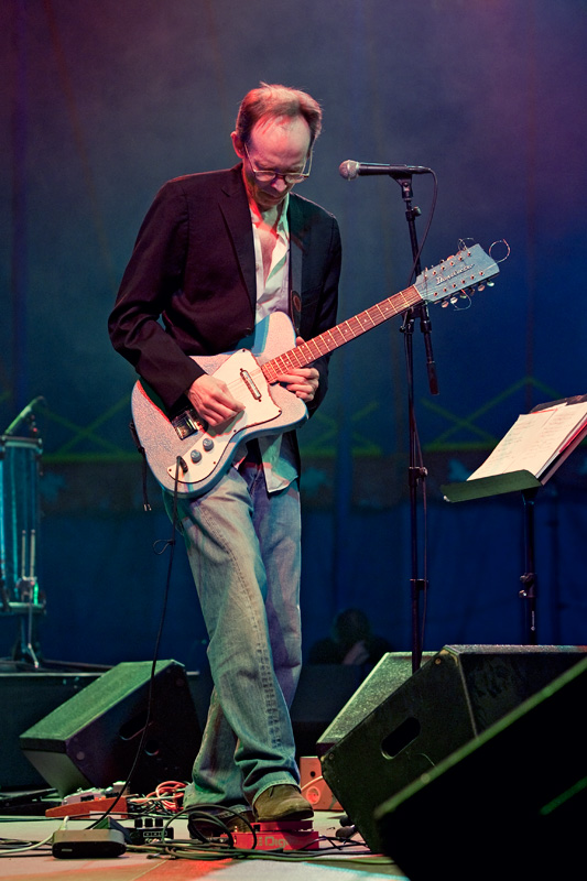 Arto Lindsay (with guests) at moers festival 2010